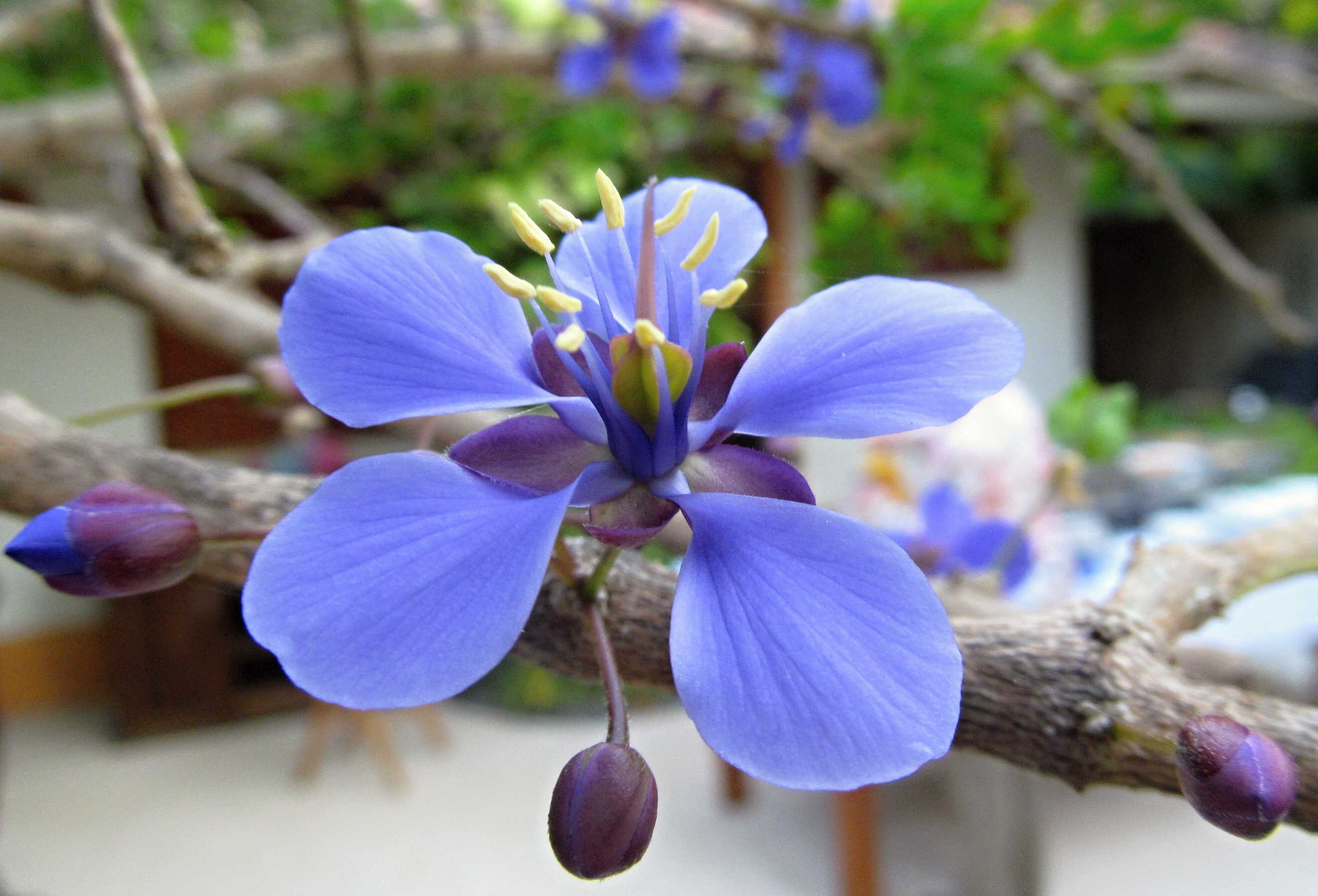 Guayacan tree flower (Guaiacum coulteri) Most species of Guaiacum are threatened and listed on the IUCN Red List of Threatened Species and their trade controlled under CITES. This species of Guaiacum occur in western Mexico G. coulteri, a shrub to small tree endemic to the seasonally dry forests of the Pacific Coast of Mexico ranging from Sonora to Oaxaca.